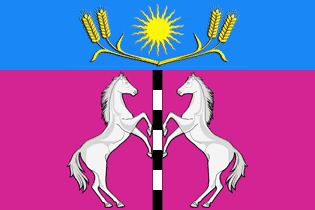 Flag of Kanelovskoe rural settlement, Krasnodar Territory, Russia